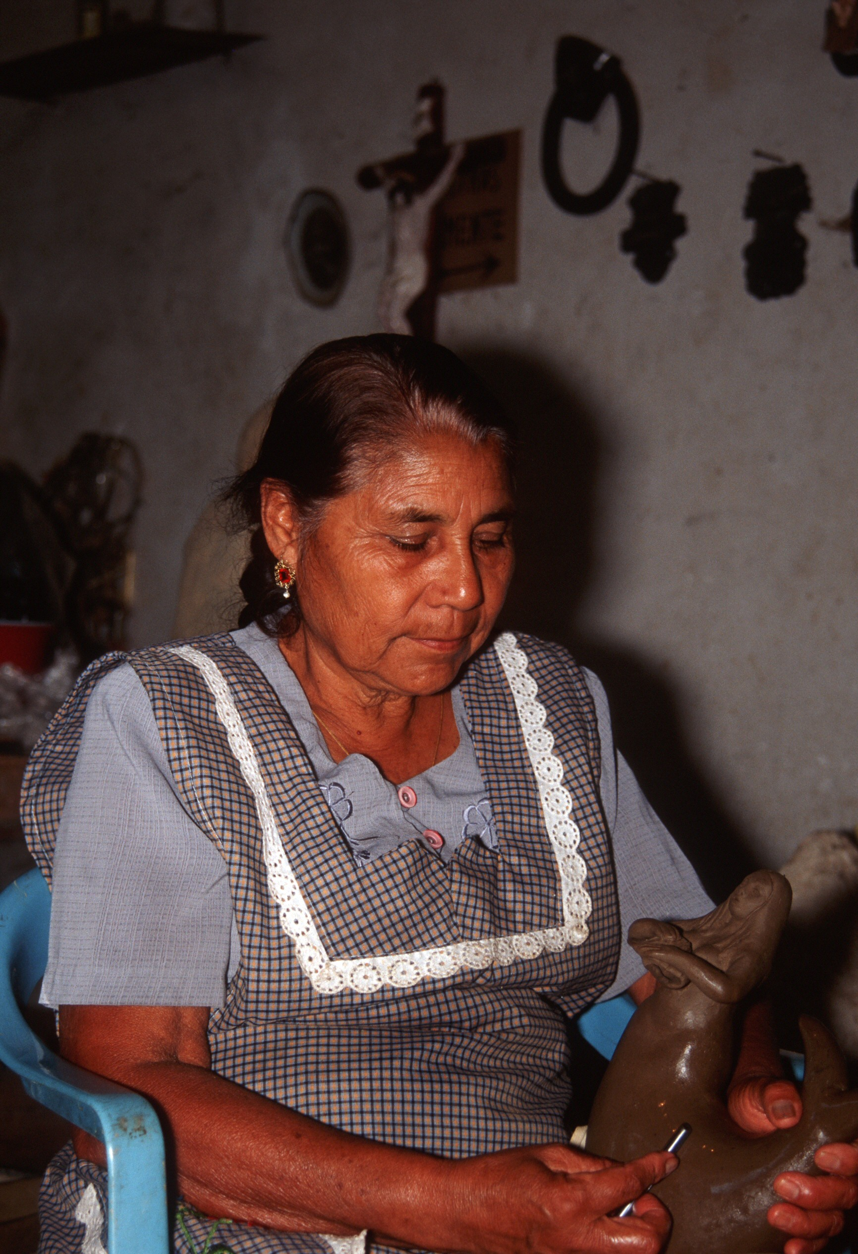 Glafira Martinez Barranco of the Carlomagno Pedro Martinez family in San Bartolo Coyotepec, Oaxaca Mexico